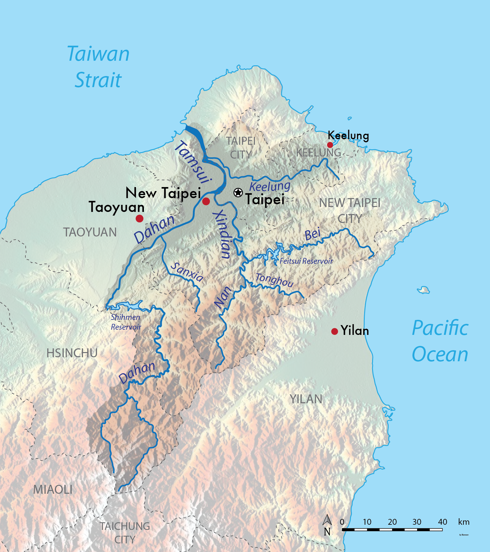 New map showing the Tamsui River in Northern Taiwan. Shaded relief from US Geological Survey